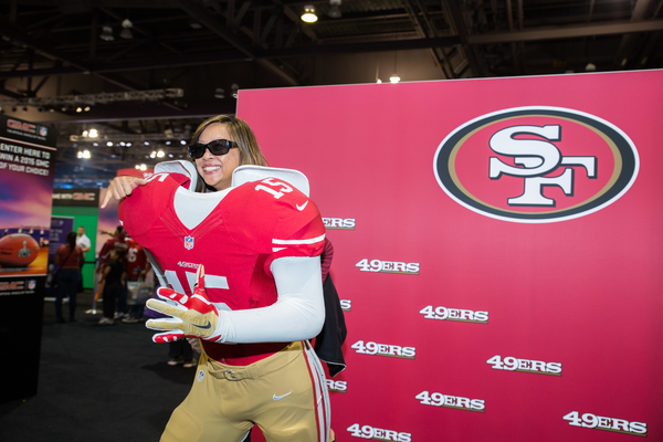 Super Bowl XLIX